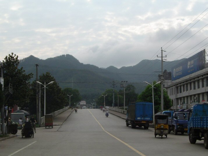 A street in Yaodu, Dongzhi County in China's Anhui Province. Photograph taken by the uploader, User:Nat_Krause in July of 2004.